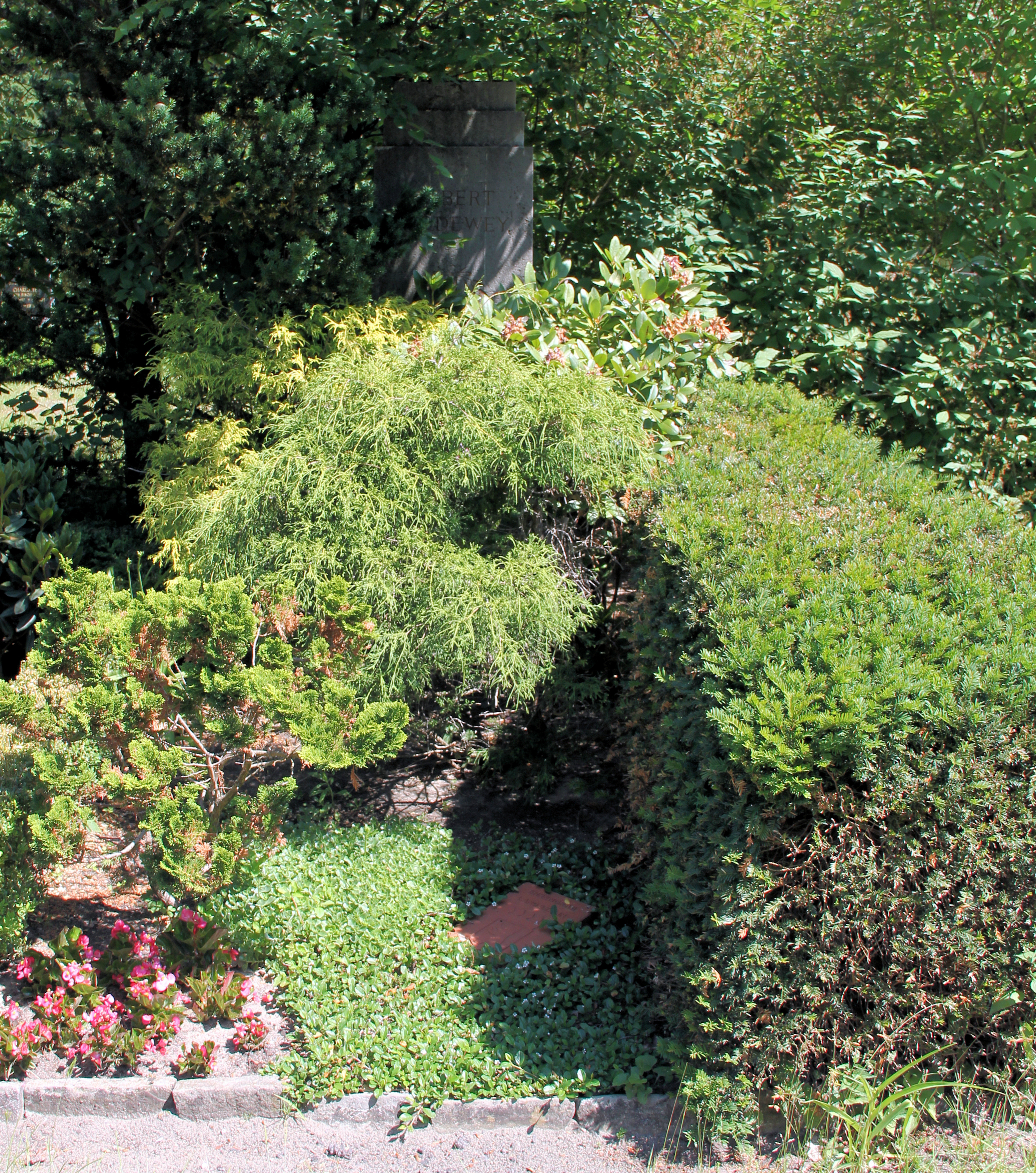 "Ehrengrab" (grave of honor), Robert Koldewey, Thuner Platz 2-4, Berlin-Lichterfelde, Germany